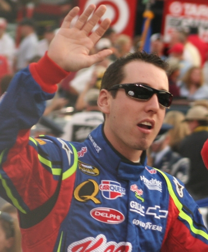 NASCAR driver Kyle Busch in August 2007 at Bristol Motor Speedway